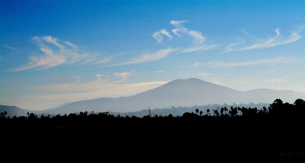 Mt. San Miguel from La Mesa, CA